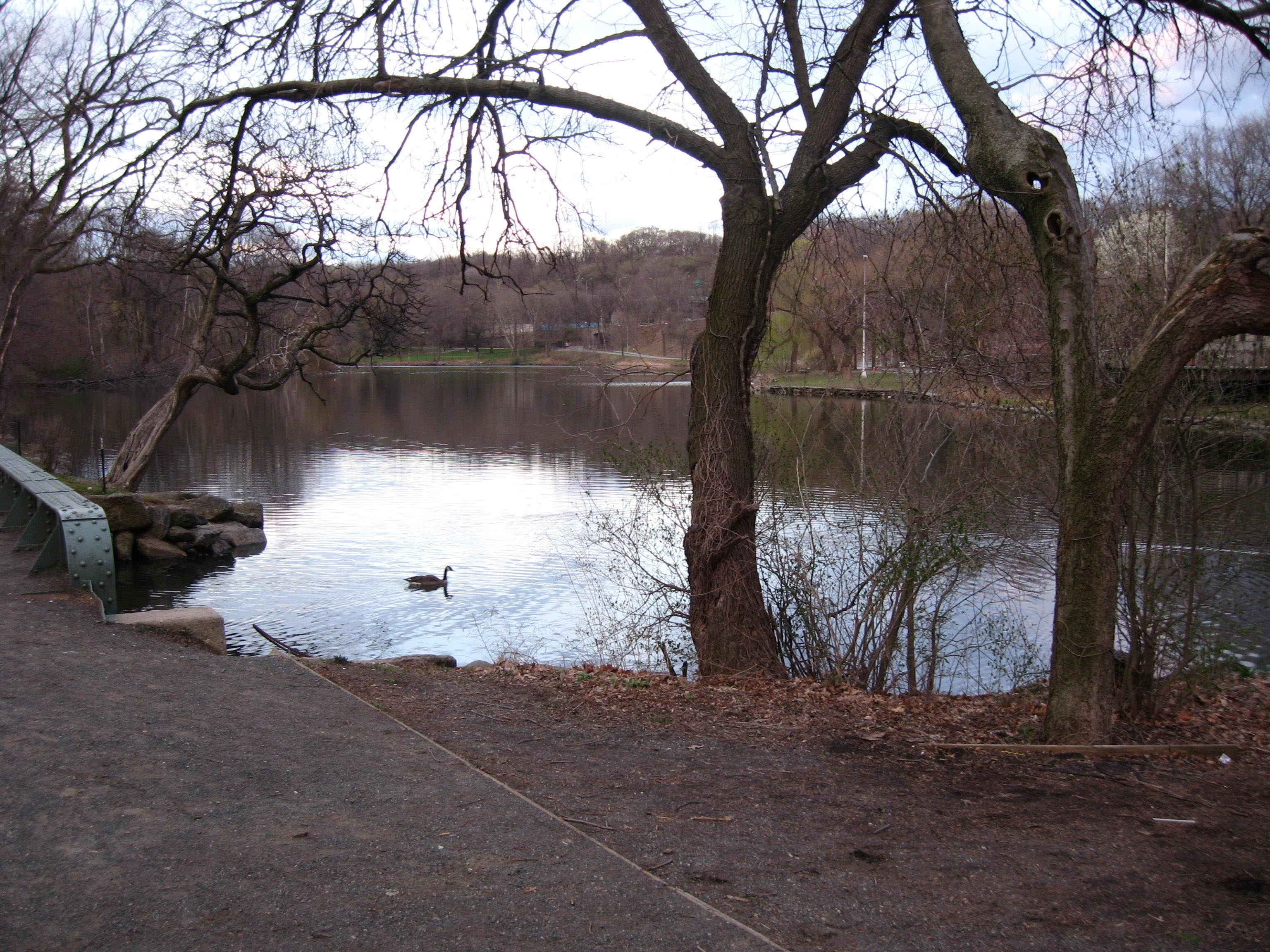 Looking northeast from Old Put bikeway along the lake towards VCP golf club at the end of a cloudy day in early springtime.